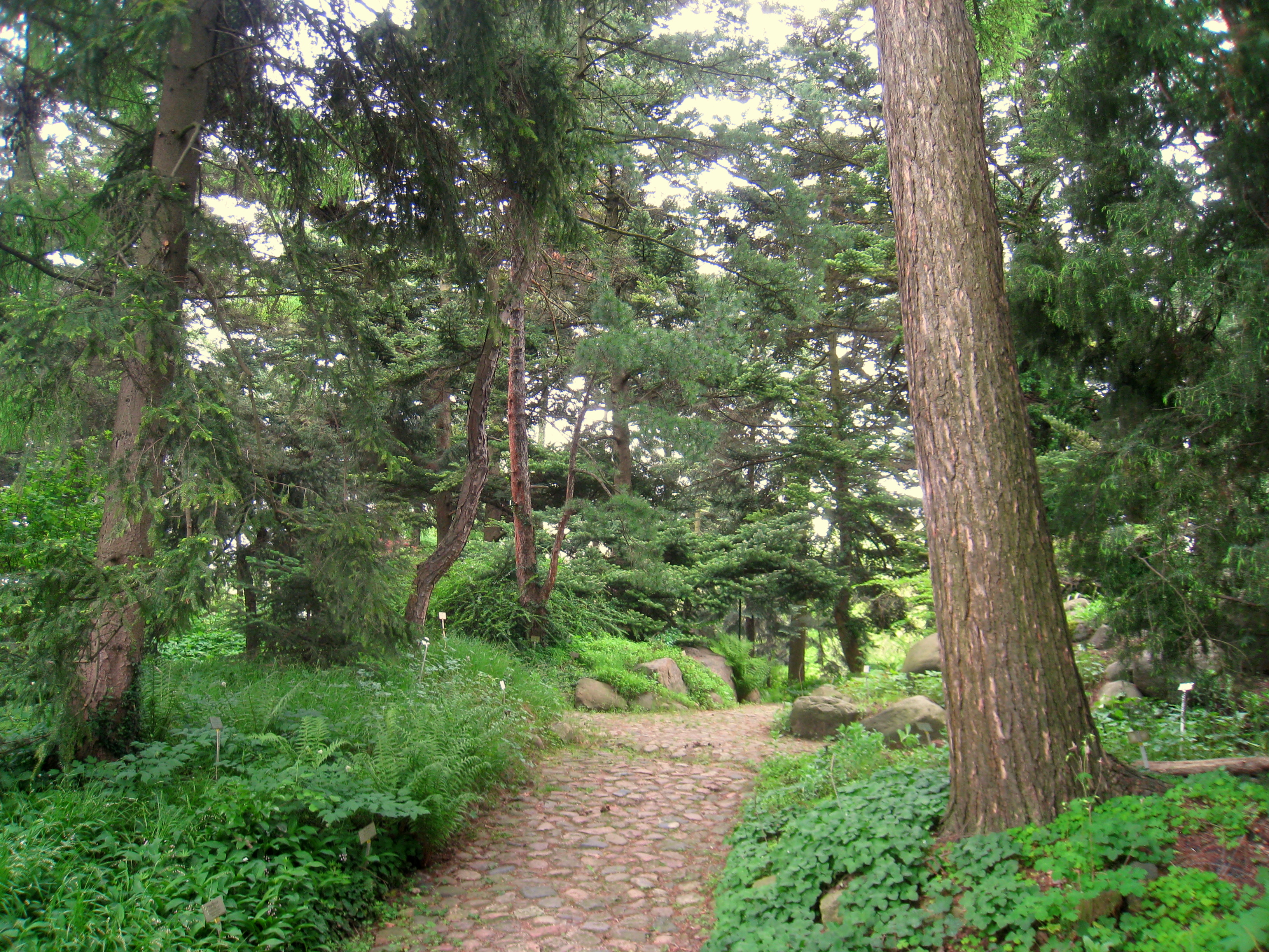 View of the Botanischer Garten, Berlin-Dahlem, Berlin, Germany.